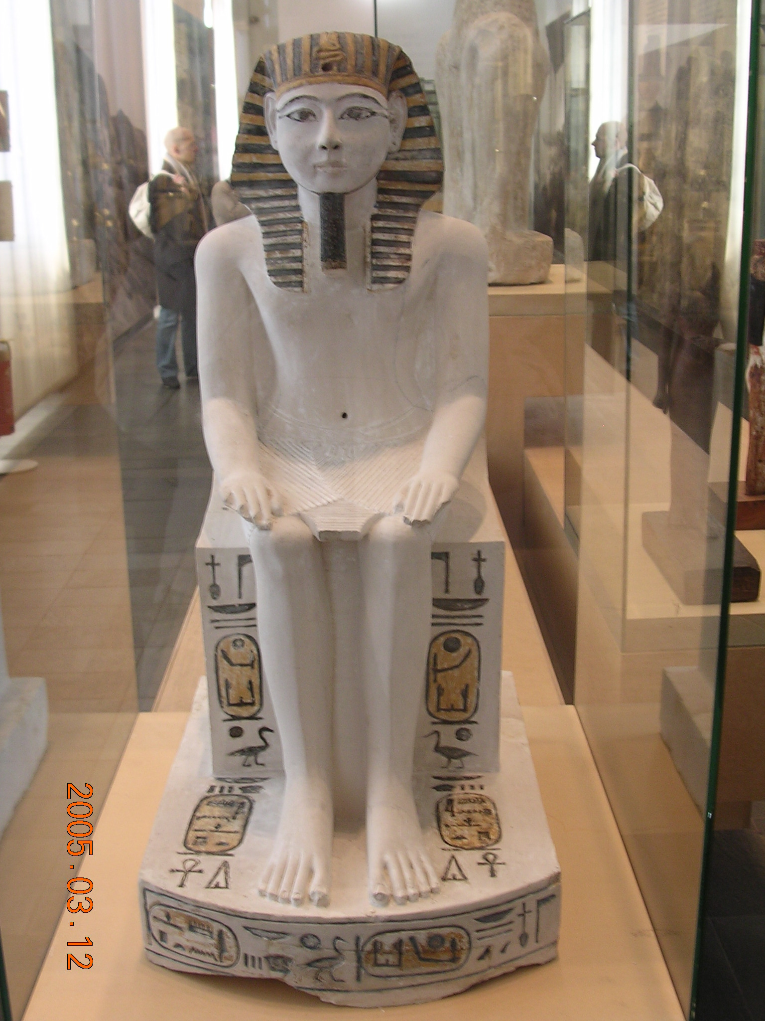 Pharaoh Amenhotep I of the 18th dynasty of Egypt